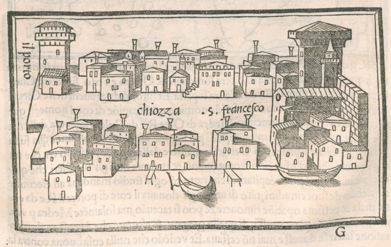 View of Torcello, contained in Benedetto Bordone's book Isolario, 1534 edition